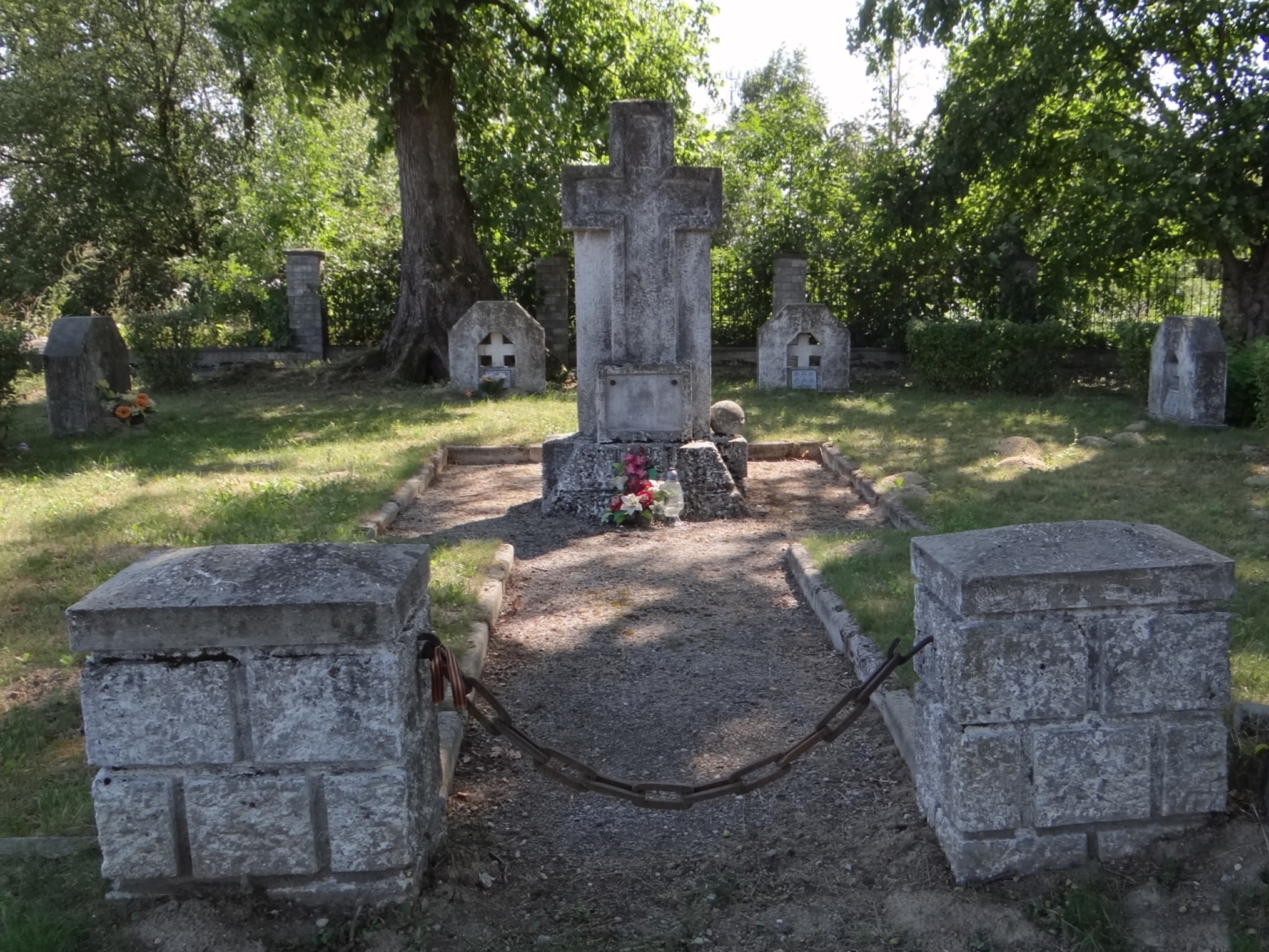 World War I Cemetery nr 264 in Szczurowa